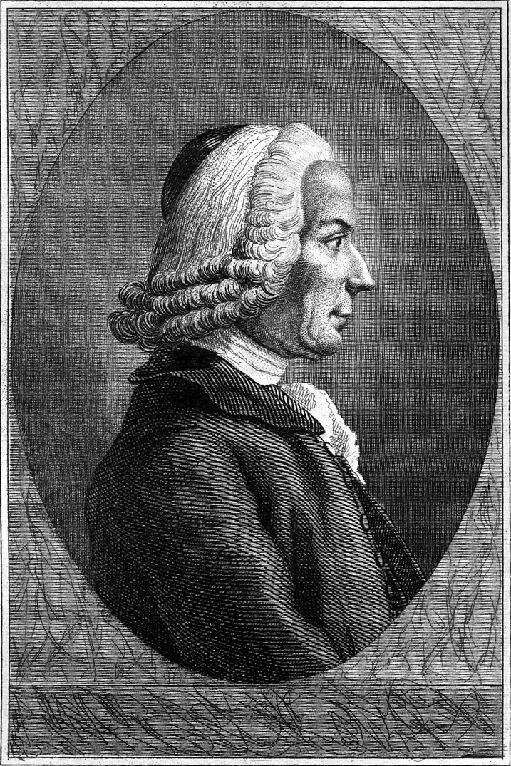 Jean-François Resnel du Bellay (1692-1761), French translator and poet.